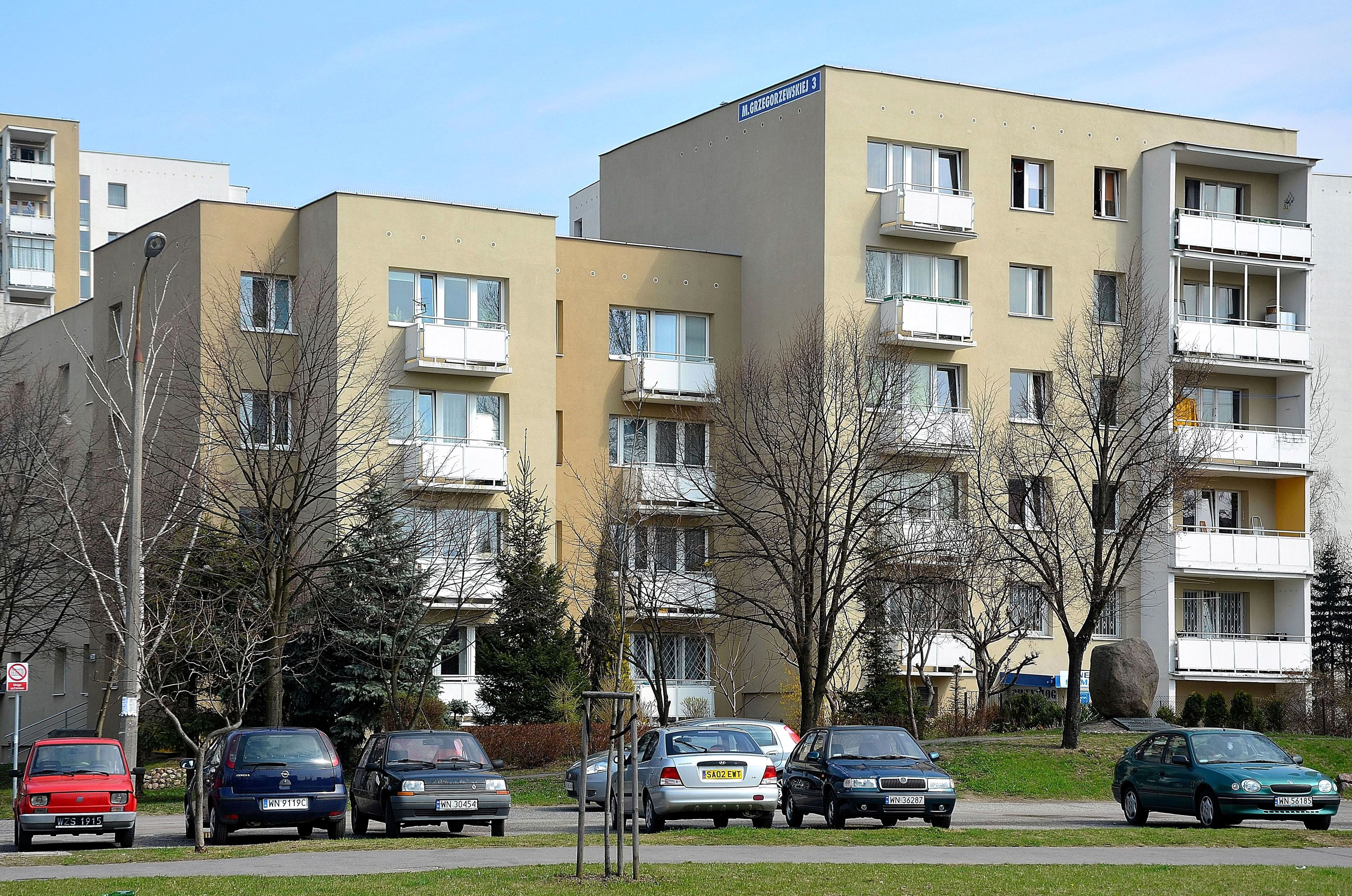 Block of flats at 3 Grzegorzewskiej Street (view from Cynamonowa Street) in Warsaw were some scenes of the series Alternatywy 4 were shot